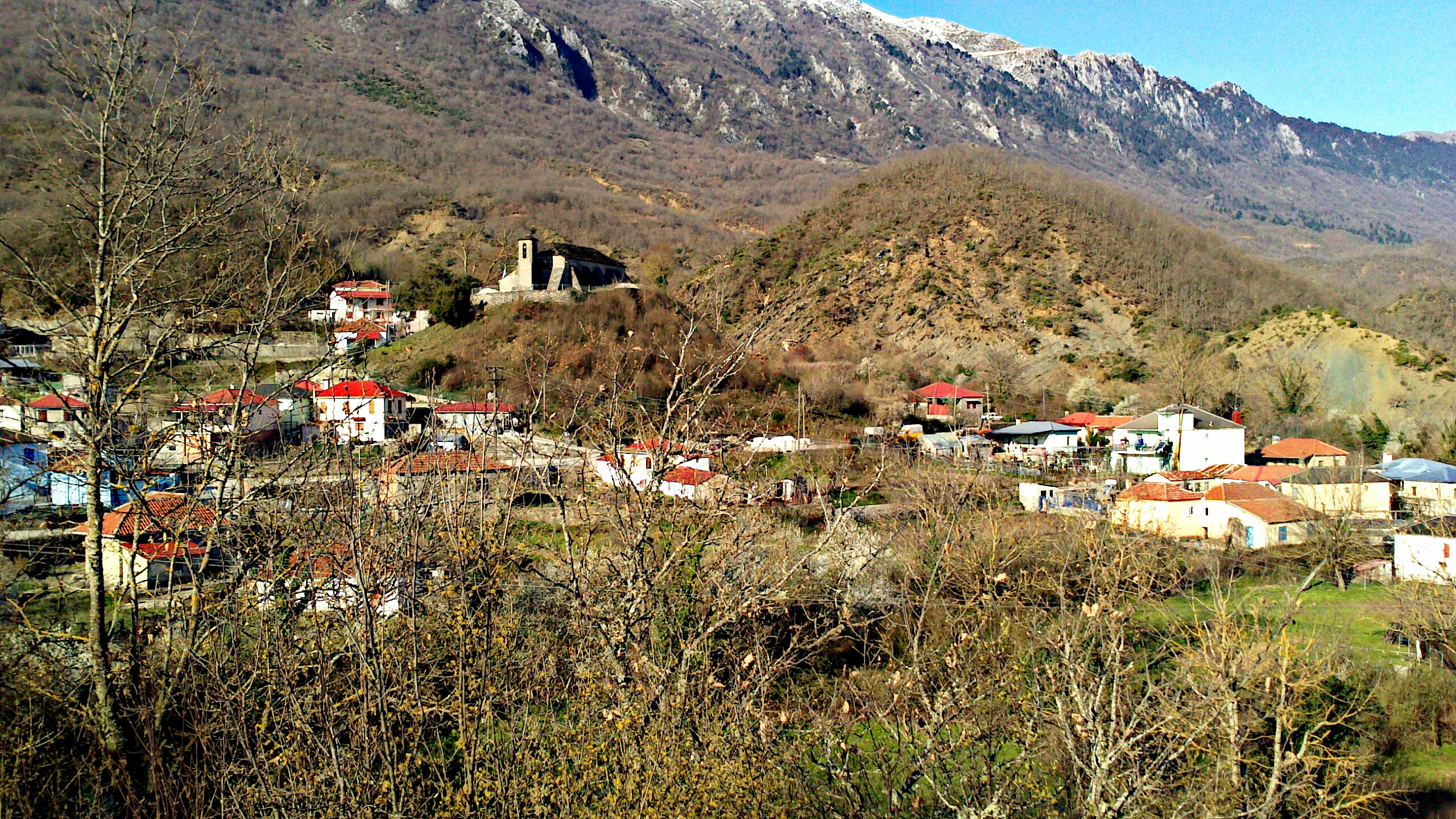 General view of Kavallari village - Ioannina - Epirus - Hellas